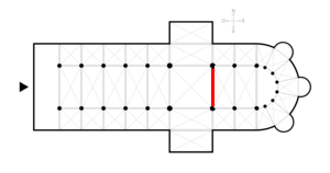 Rood screen